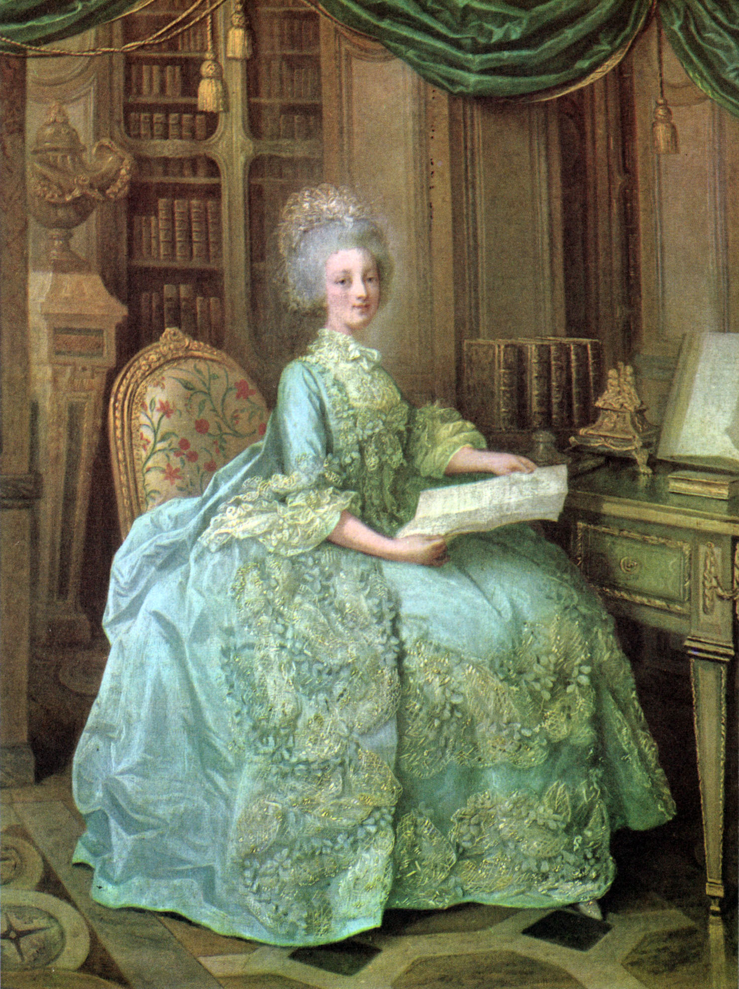 Previously thought to be a portrait of Marie-Antoinette, the painting's subject has been identified as Madame Sophie, because of her library's distinctive parquet floor.